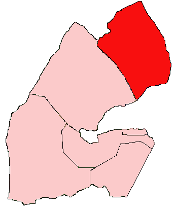 Map of the Djibouti showing Obock Region